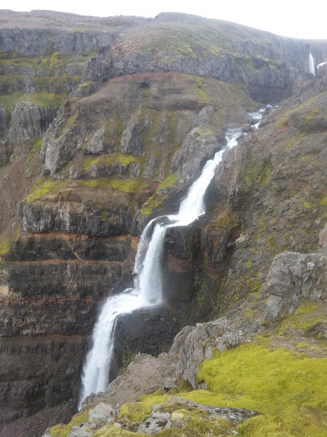 Waterfall in Lónsöræfi